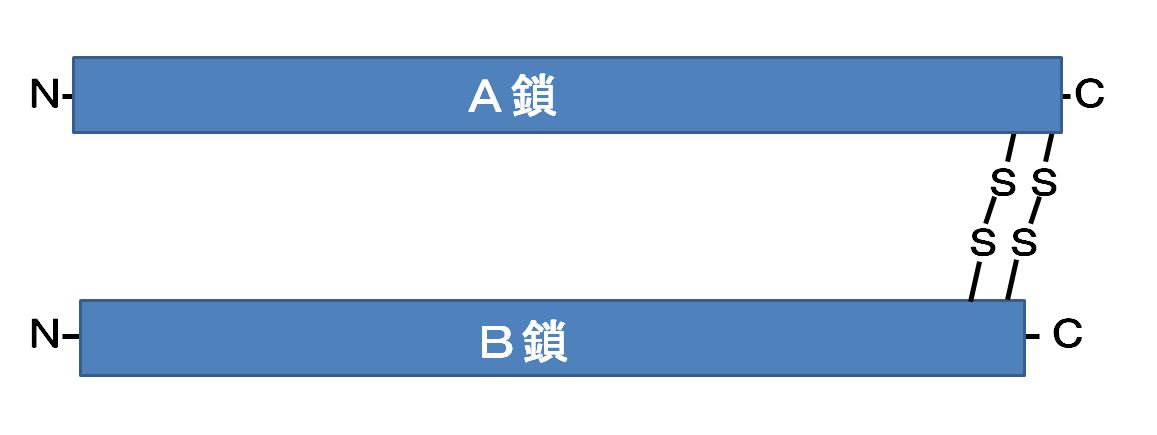 FN dimer